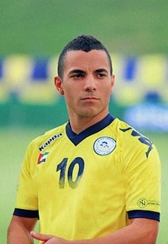 Rodrigo Souza Silva before a match with Al Dhafra against Al Ain. Hamad bin Zayed Stadium 4 February 2013 Photographer email id